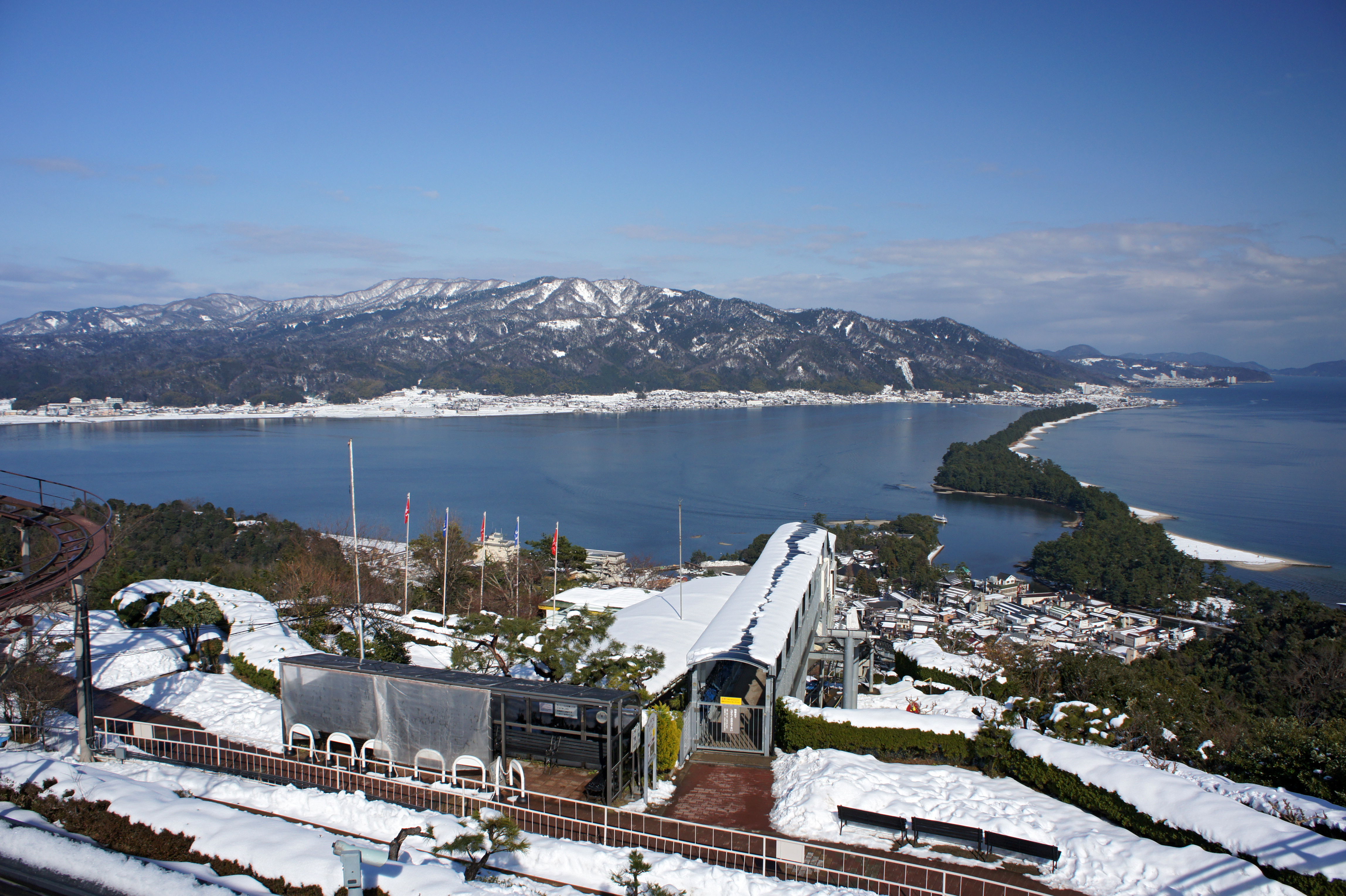 Amanohashidate View Land in Miyazu, Kyoto prefecture, Japan.